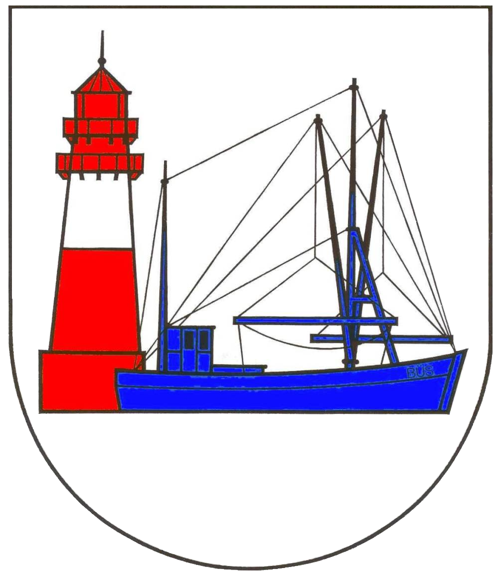 Coat of arms of the municipality Büsum in Schleswig-Holstein, Germany.